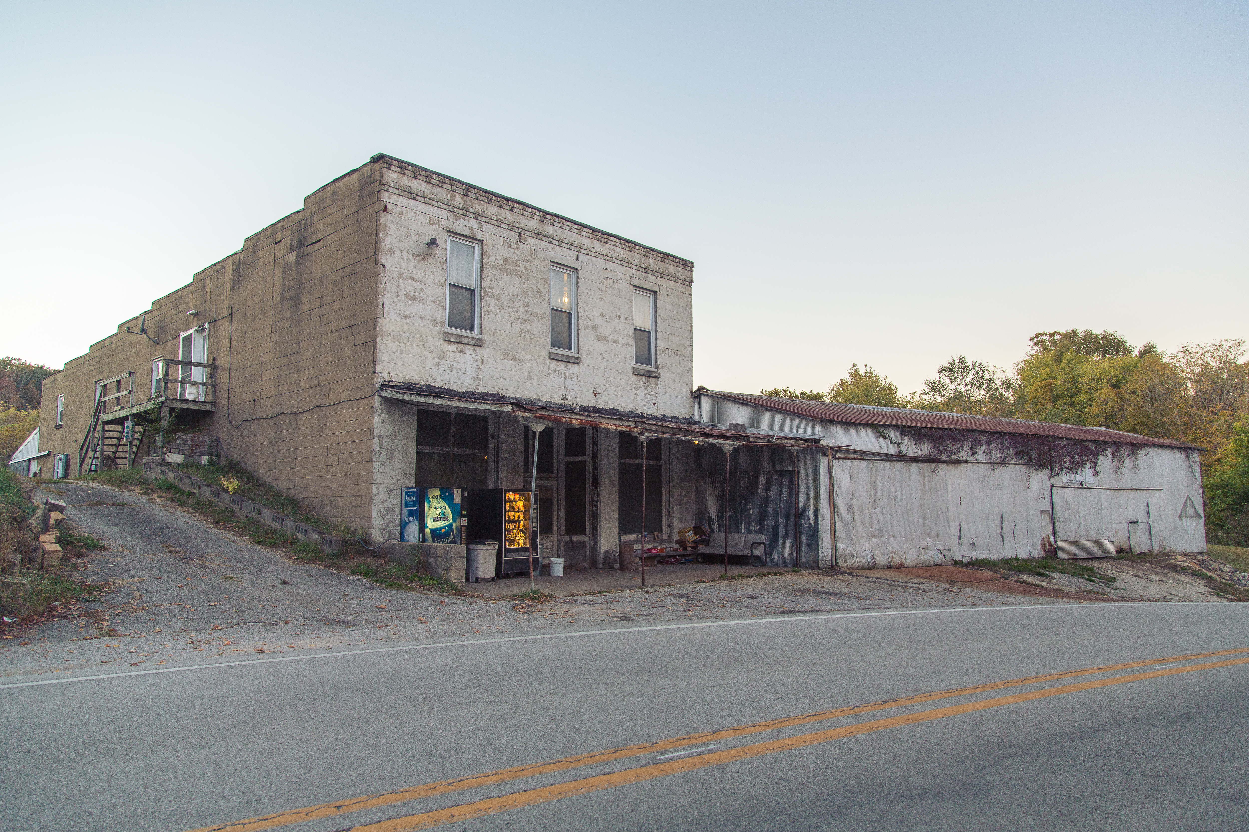 Photo from Small Town Indiana photo survey.